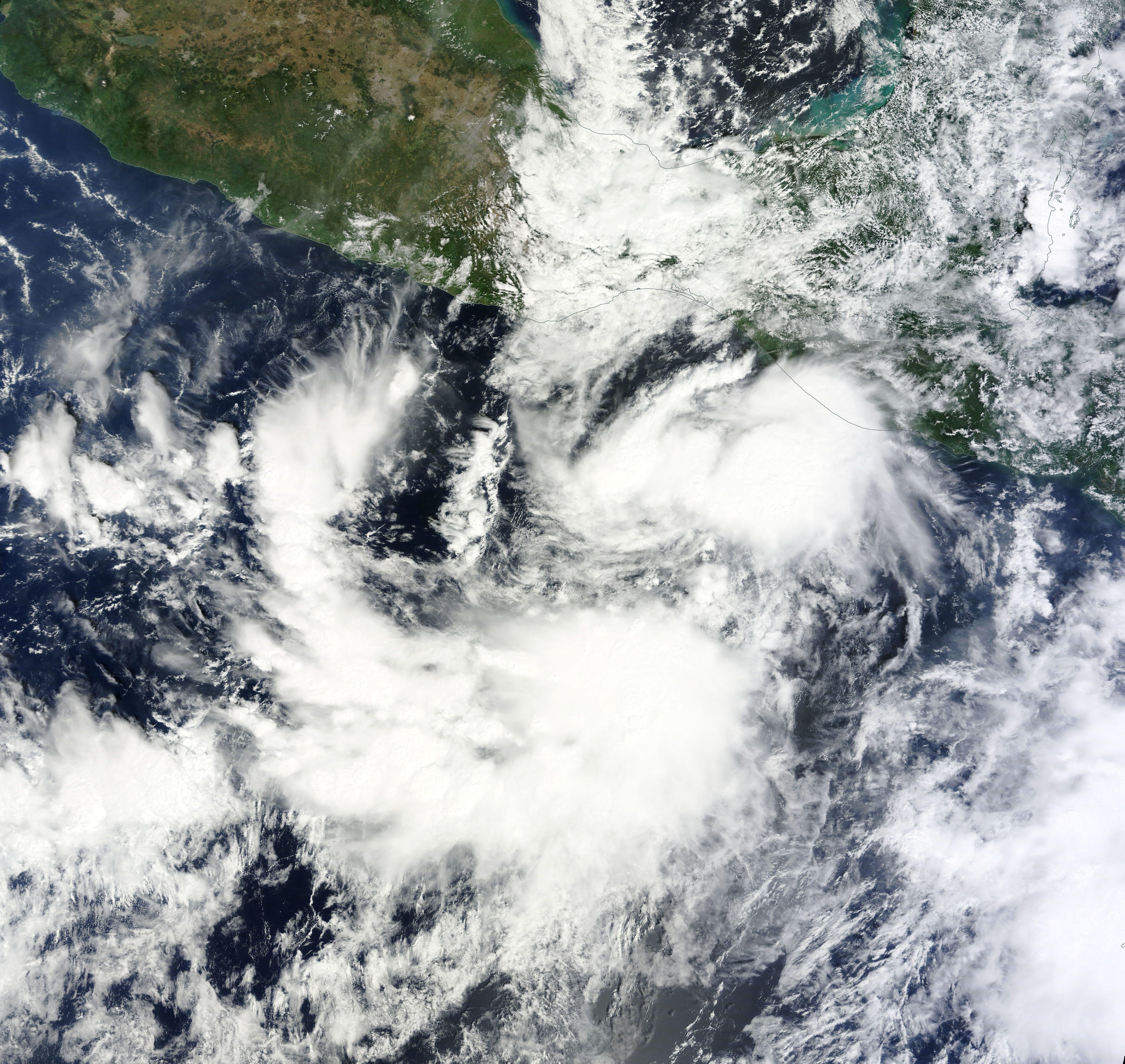 Terra MODIS satellite imagery of Tropical Depression Twenty-E (later Hurricane Patricia) at 17:00z on October 20, 2015.